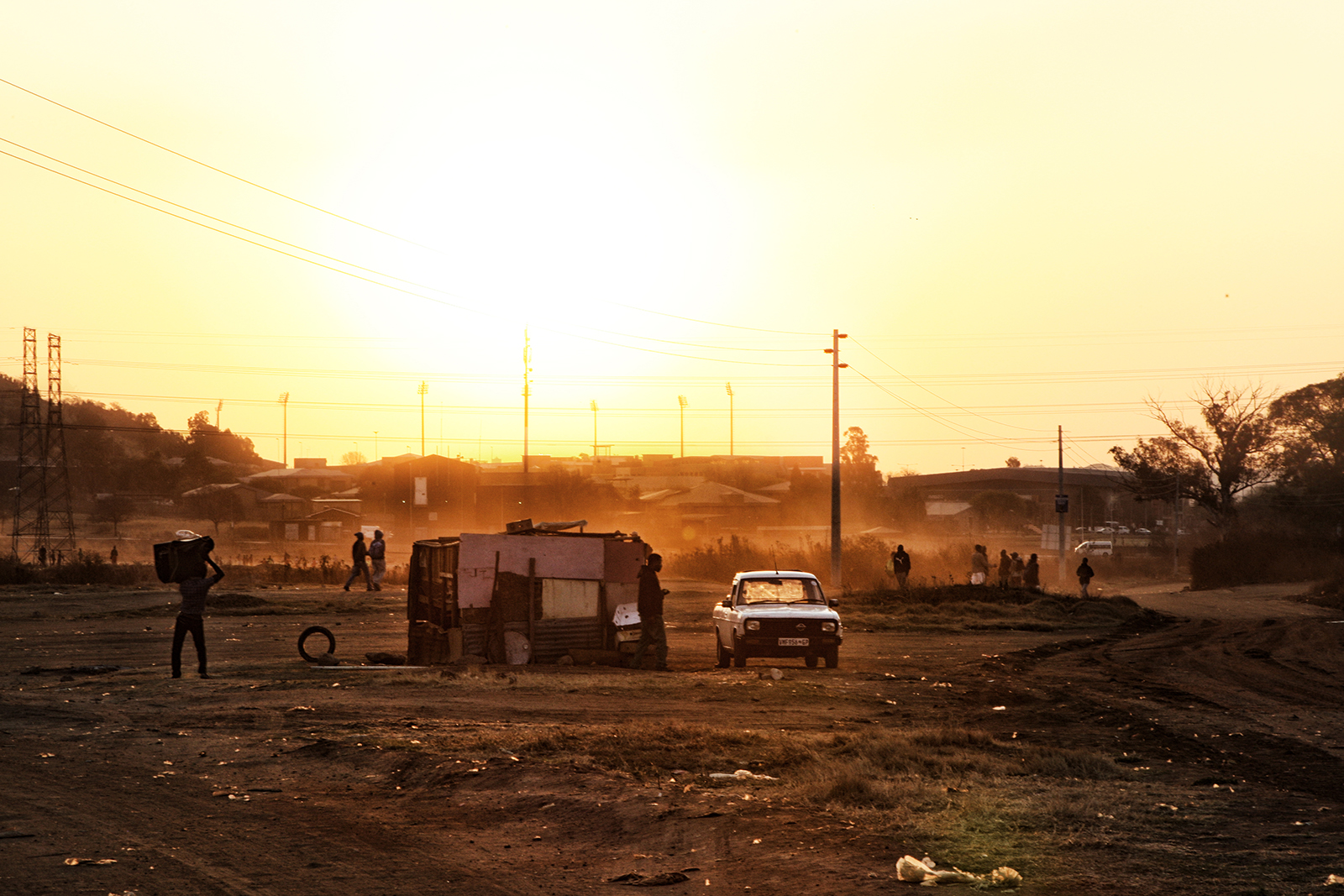 Transportation in Soweto This is an image with the theme "Africa on the Move or Transport" from: South Africa